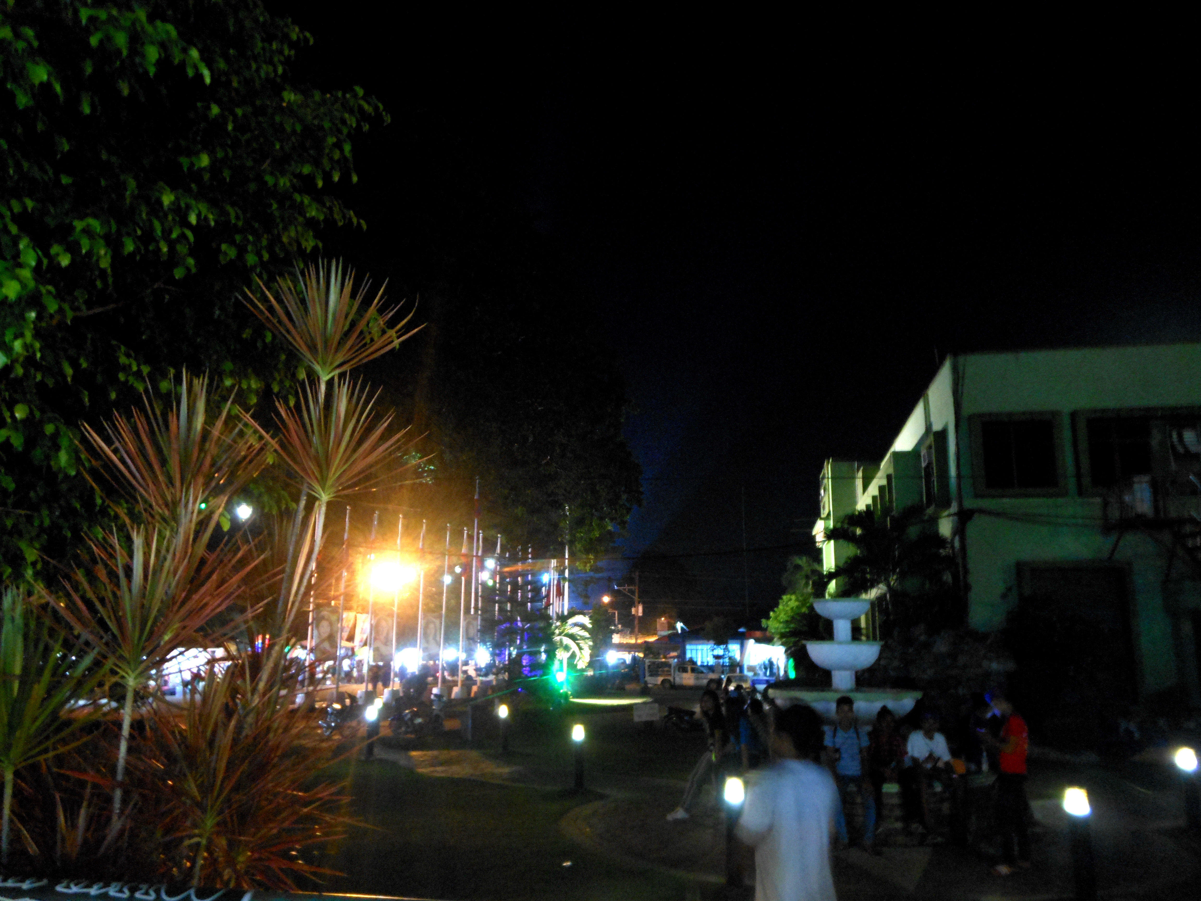 City hall of Tanjay, Negros Oriental at night.